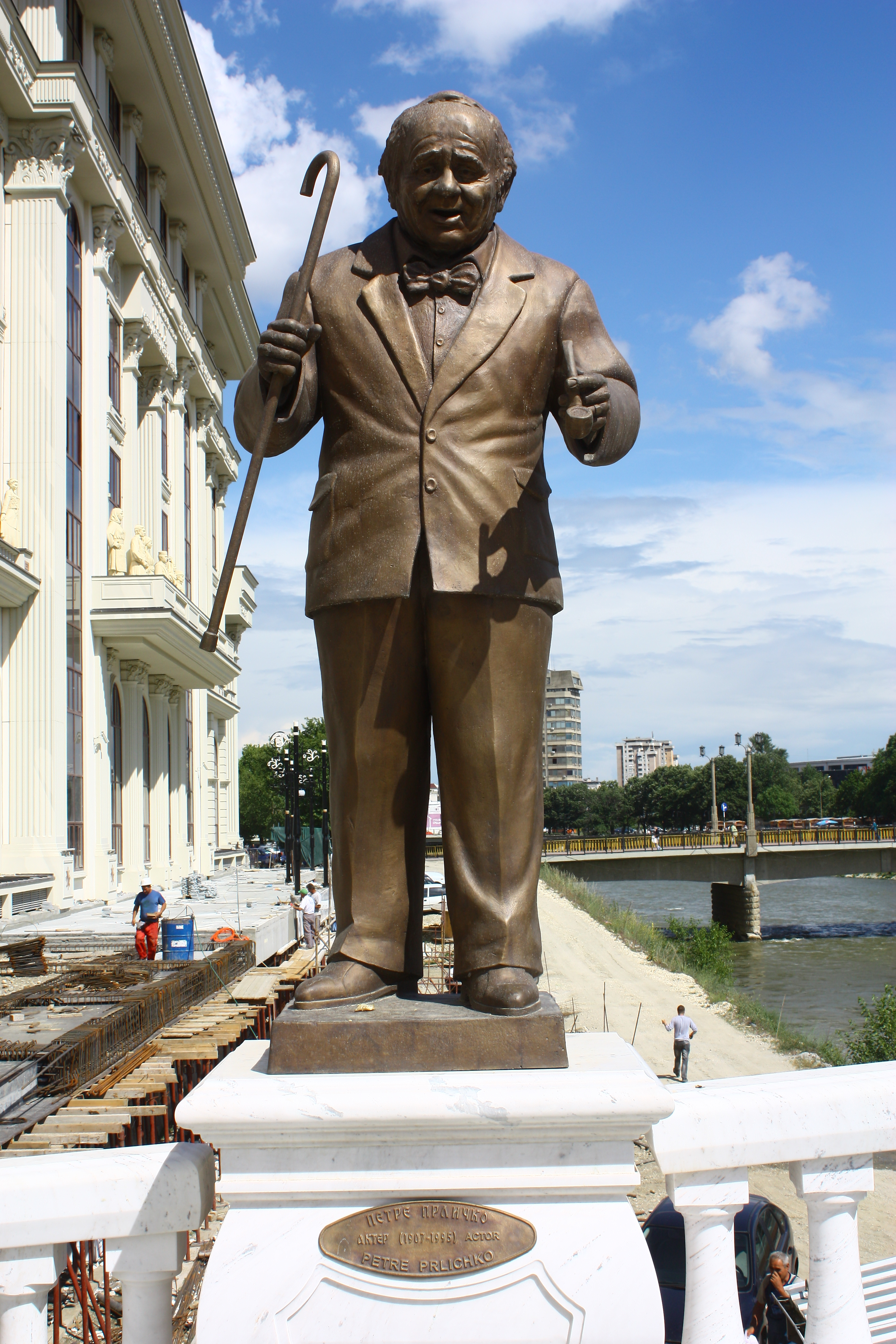 Sculpture od the Bridge of Arts in Skopje, Macedonia This image is uploaded as part of the picture contest Wiki Loves Cultural Heritage in Macedonia 2013. English | македонски | +/−